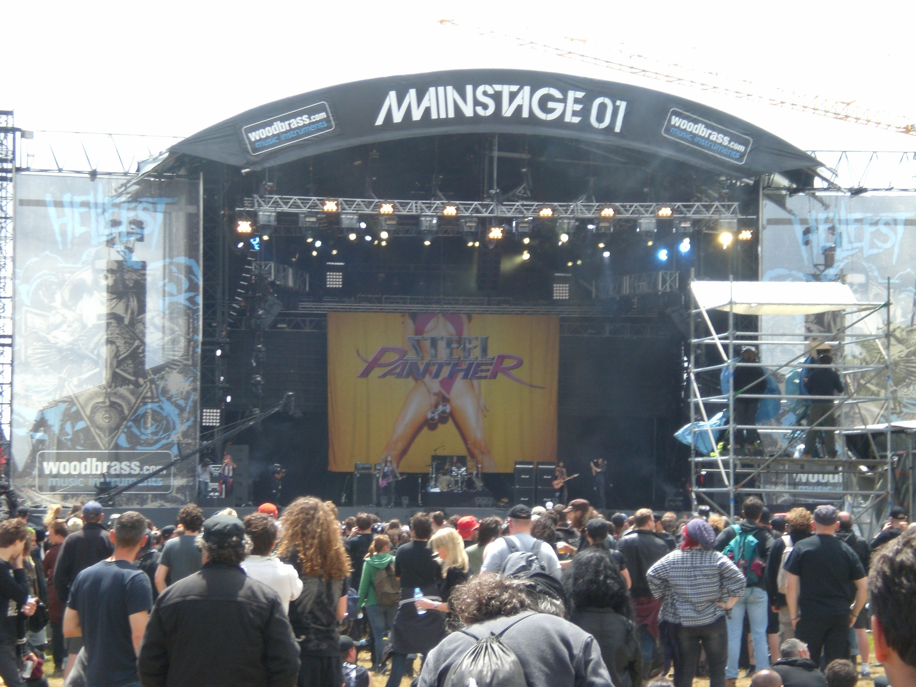 Steel Panther at 2012 Hellfest 2012.